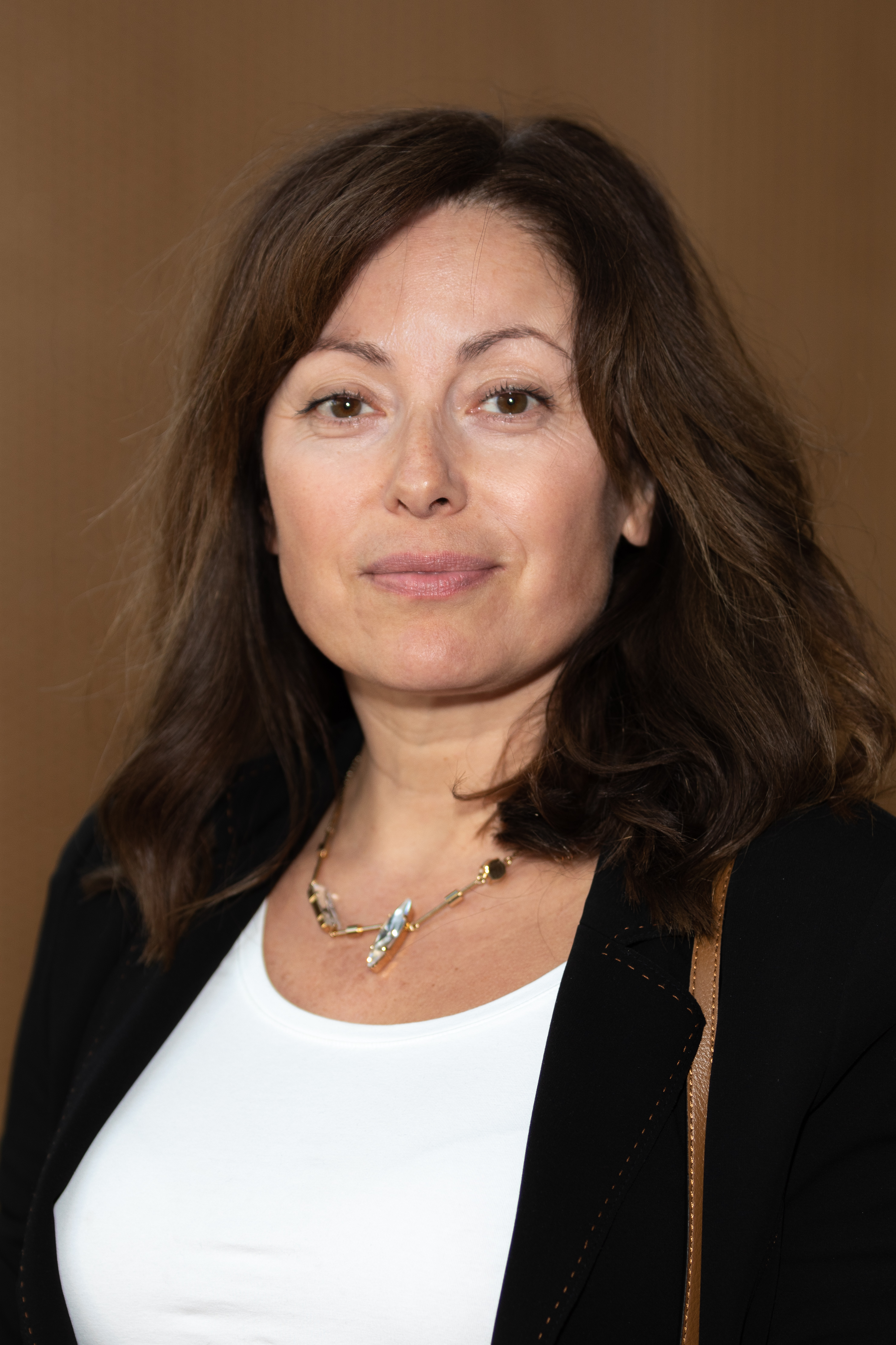 Carolina Vera at the Hessian reception during the Berlinale 2019